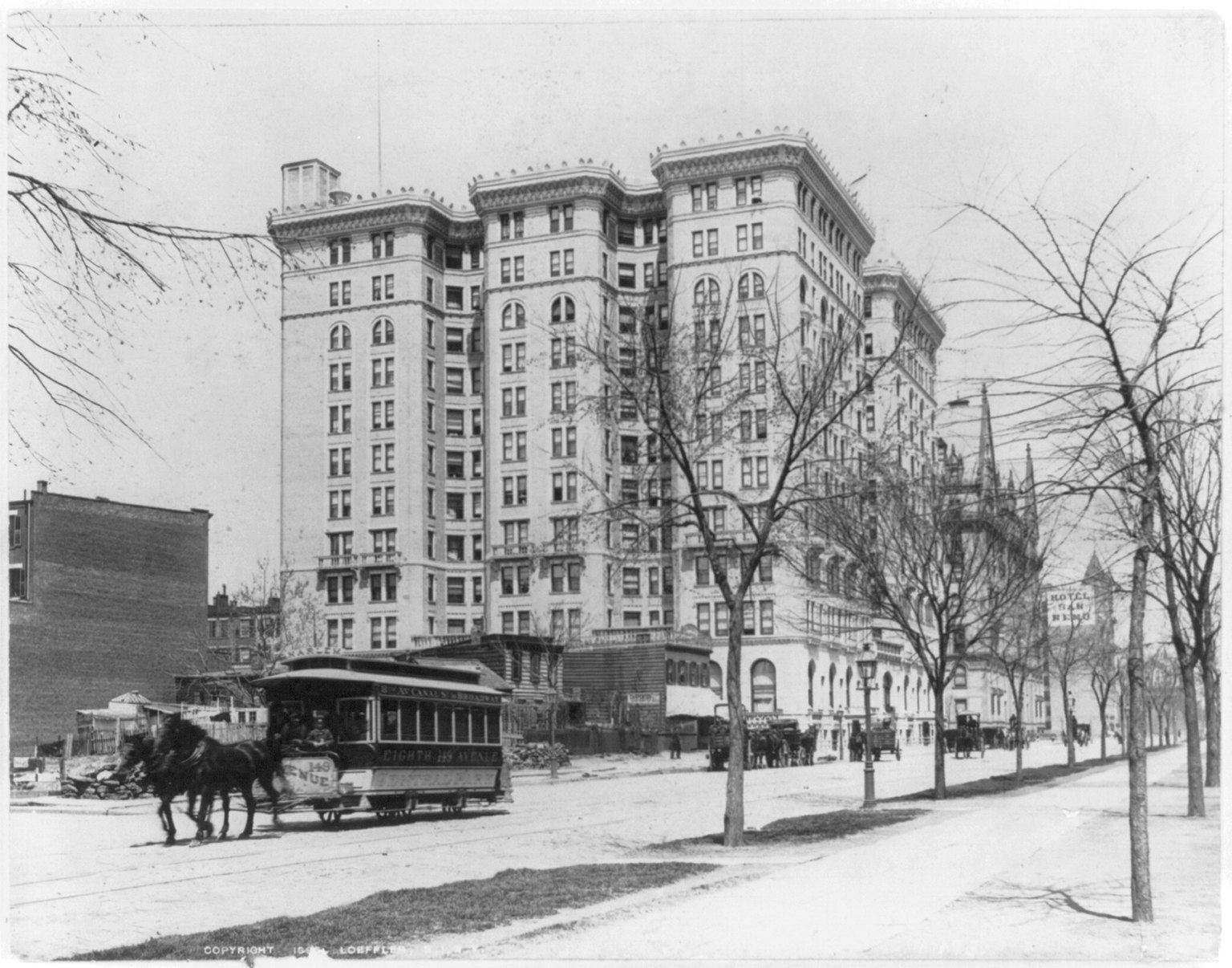 Title: Horse-drawn streetcar no. 148 of a New York City system Abstract/medium: 1 photographic print.